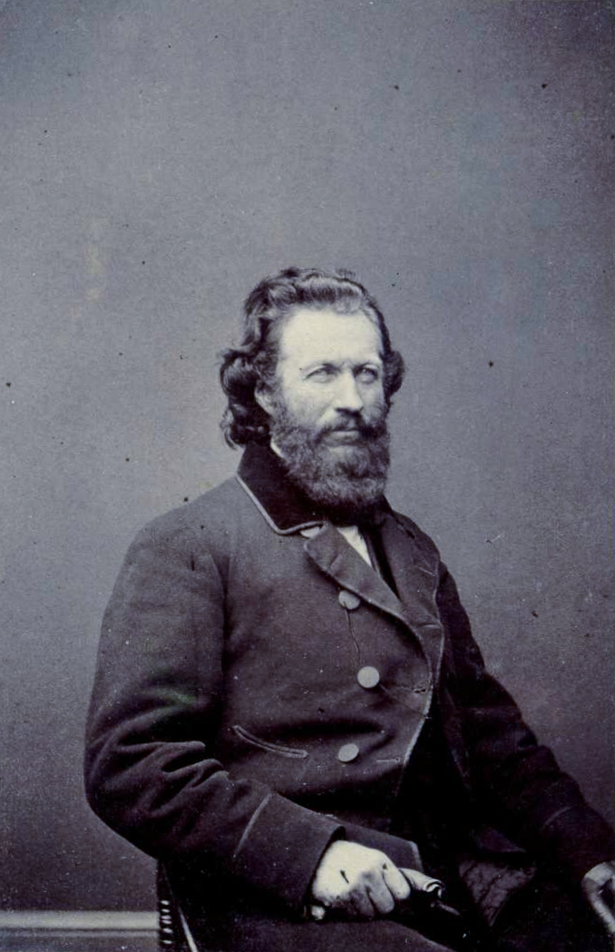 Photographic Negative from Brady’s National Portrait Gallery, published by E. Anthony, NY. Clark Mills (1810/15-1883). American sculptor best known for his equestrian statues of Andrew Jackson in DC, Nashville, and New Orleans. In 1865, he created a life-cast of Lincoln’s head. CDV.